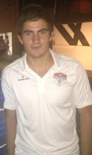 Oğuzhan Kayar manisaspor antrenman sonrası